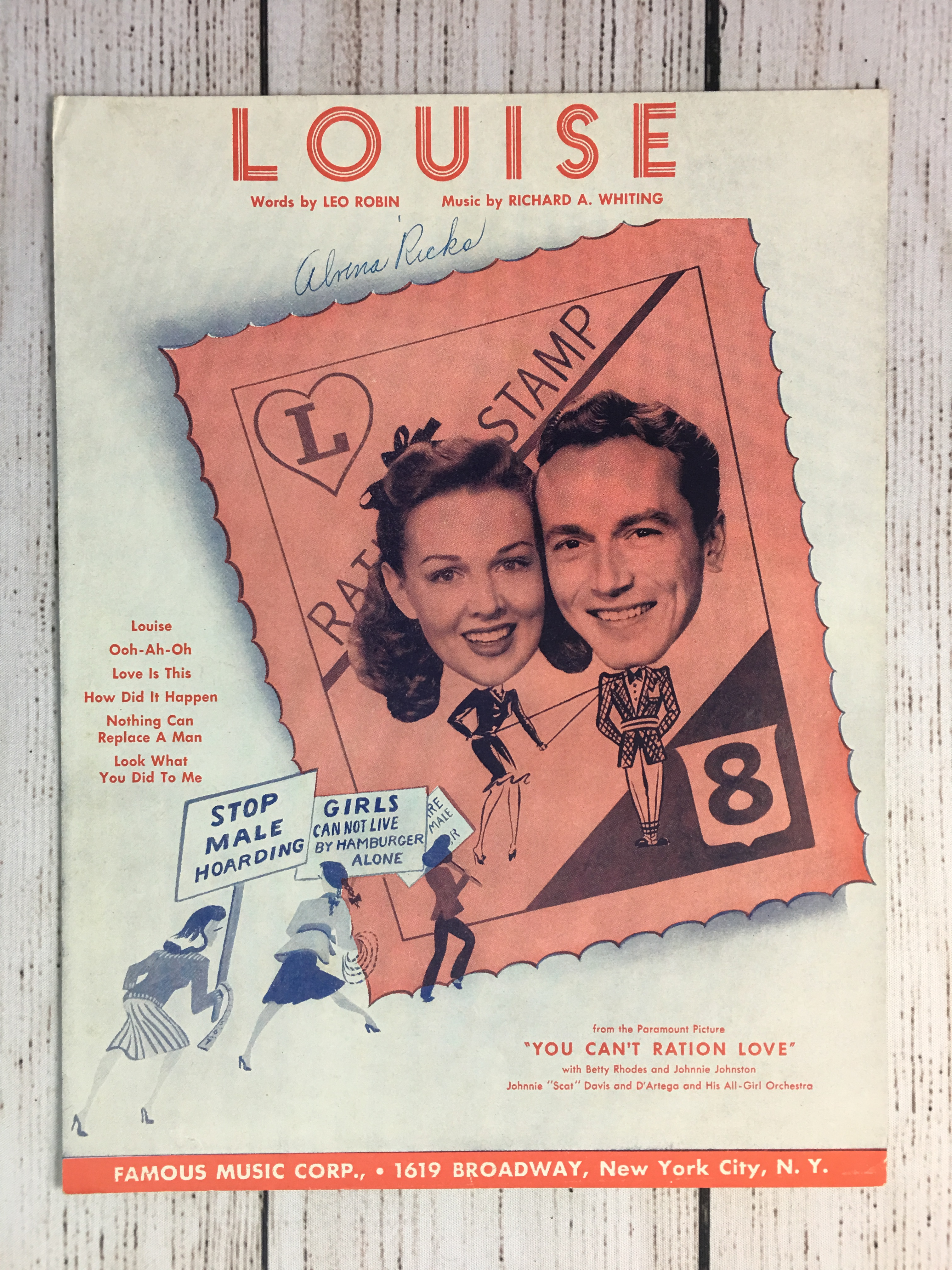 Famous Music Corp., New York, Publisher, Paramount Pictures, You Can't Ration Love.